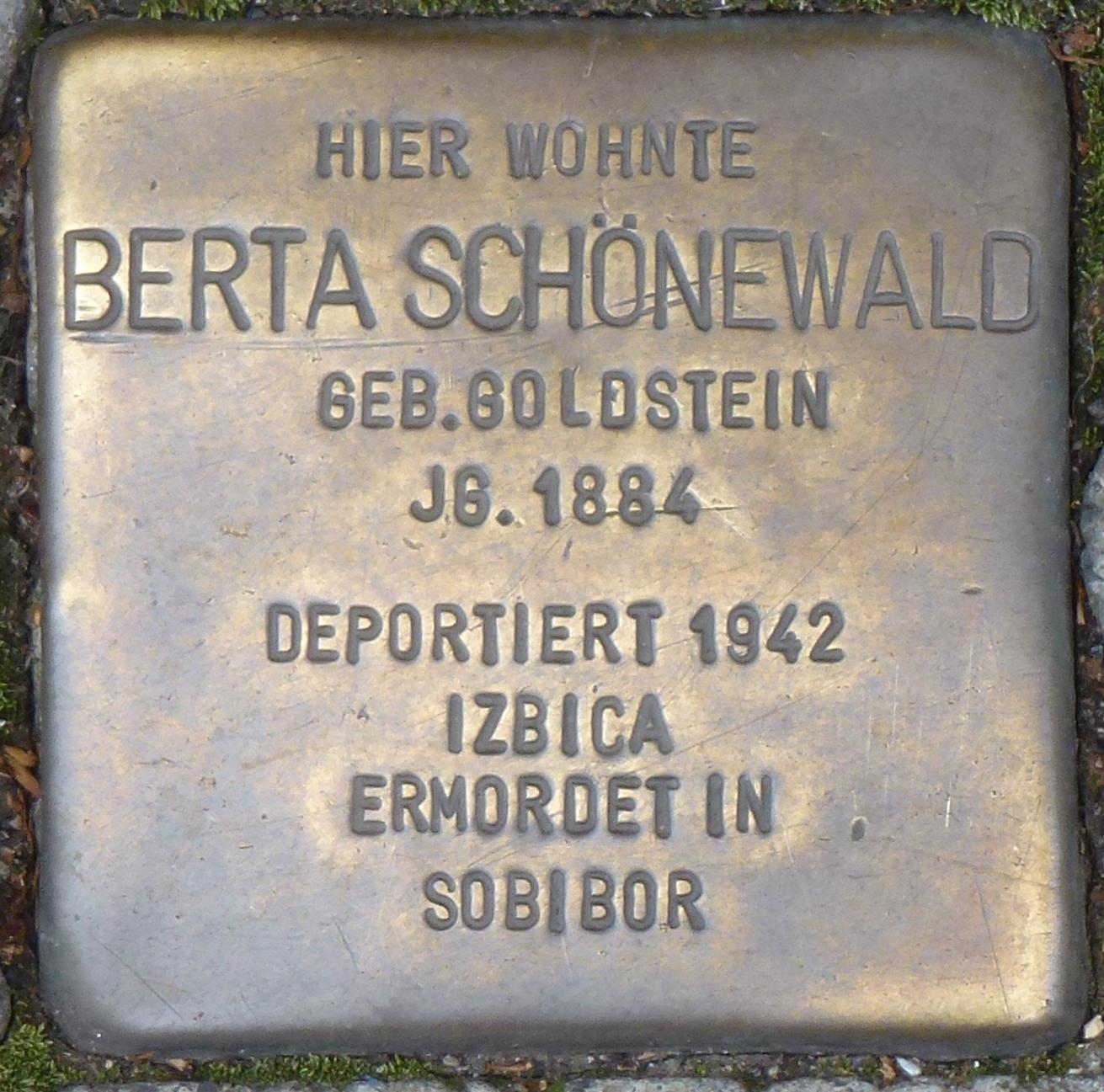 Stolperstein for Berta Schönewald, Bahnhofstraße, Koblenz (see Gedenkbuch des Bundesarchivs [1]). It says, "Bertha Schönewald / née Goldstein / lived here / born 1884 / deported 1942 / Izbica / murdered in / Sobibor"